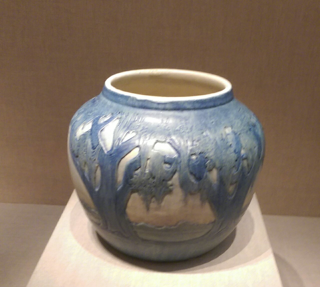 A pot made by Joseph Meyer of Newcomb Pottery between 1911 abd 1925. Photo by Jim Heaphy.